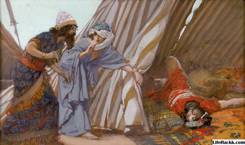 Jael Shows to Barak, Sisera Lying Dead, c. 1896-1902, by James Jacques Joseph Tissot (French, 1836-1902) or followers, gouache on board, 5 1/2 x 9 7/16 in. (14 x 24 cm), at the Jewish Museum, New York